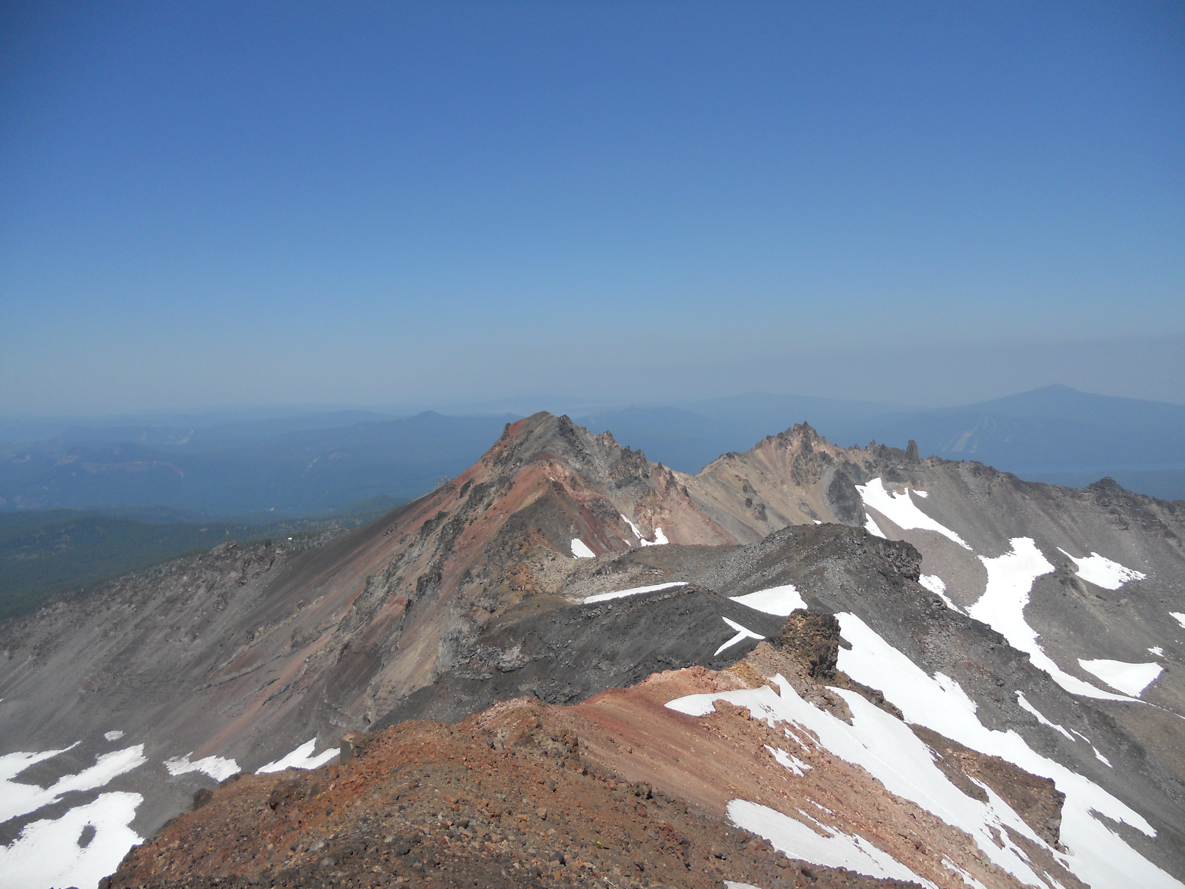 View north from the summit of Diamond Peak in the Oregon Cascades, on a smoky day because of wildfires